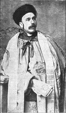 Illustration of Rev. Frederick Brown(born 1860)